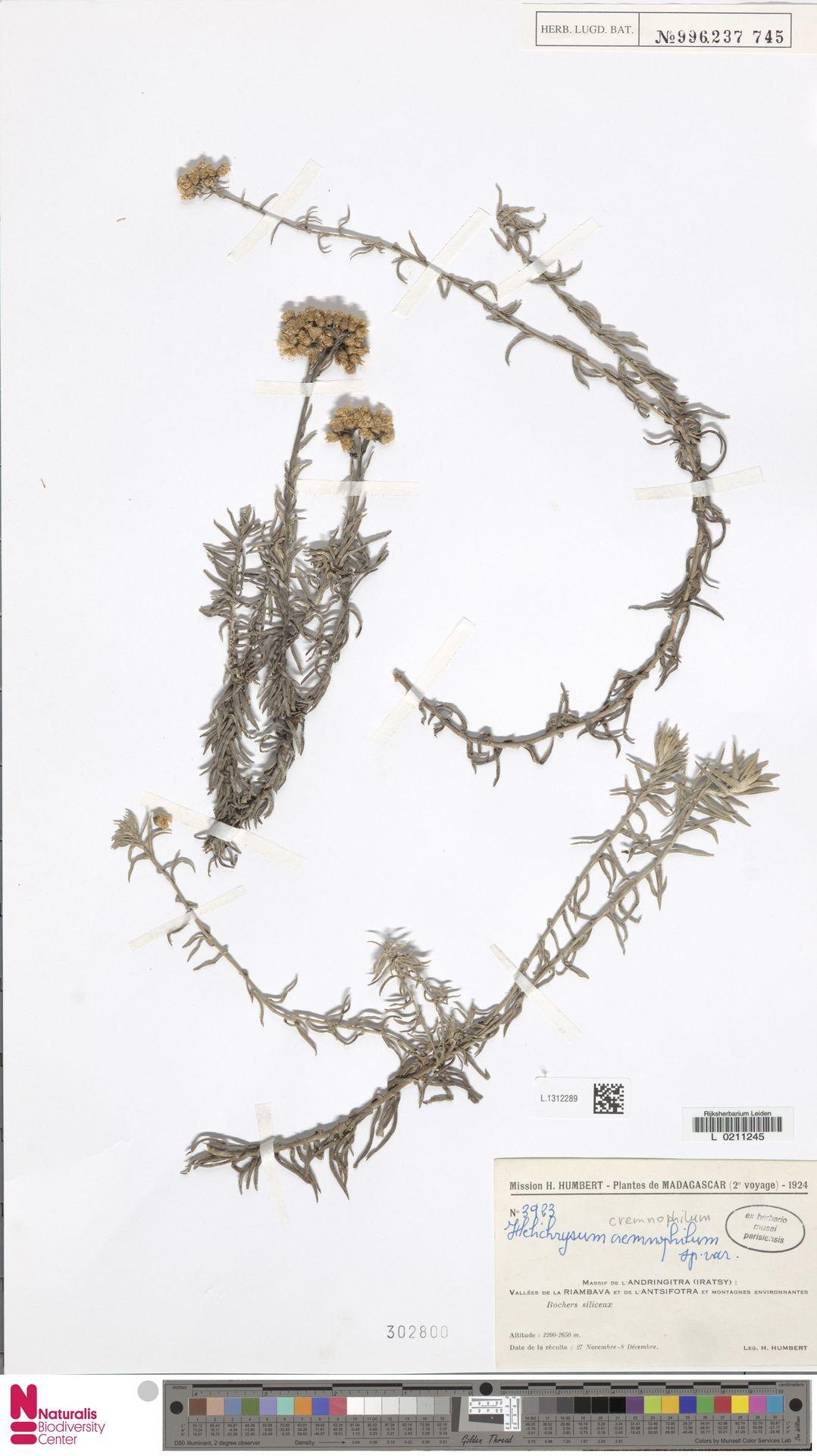 Helichrysum cremnophilum Humbert subsp. cremnophilum (type of) - Helichrysum cremnophilum Humbert subsp. cremnophilum (species)